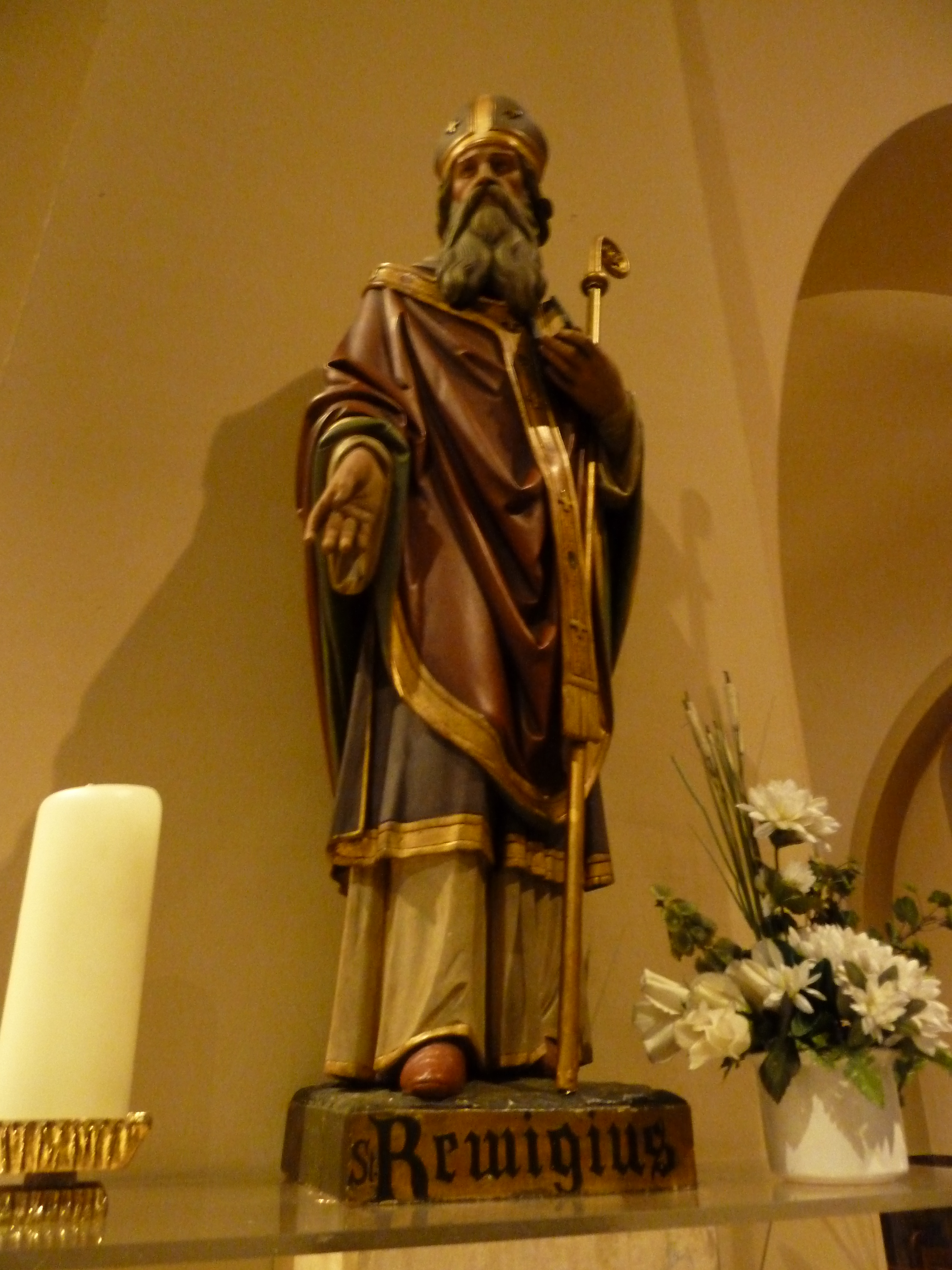 Church of Simpelveld, Limburg, the Netherlands